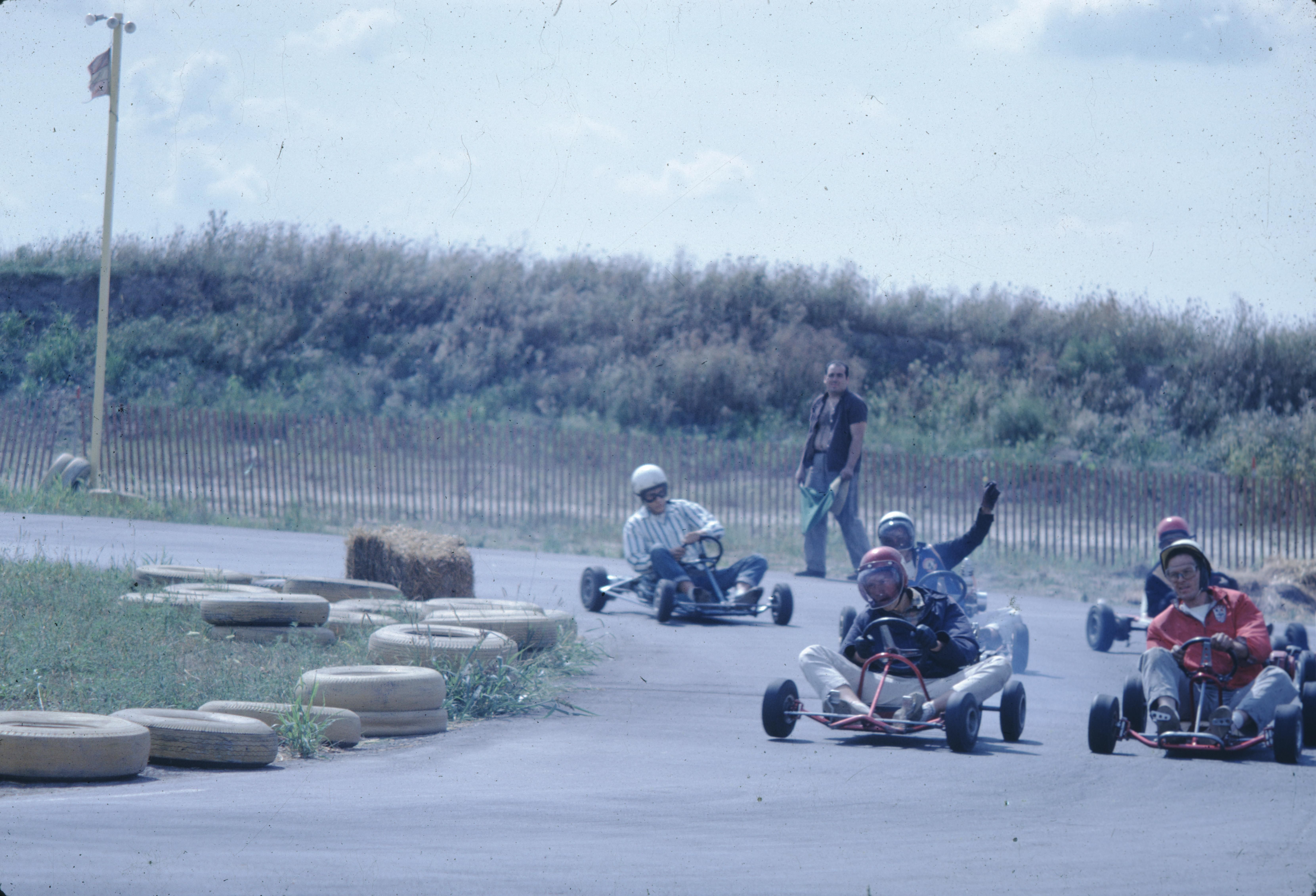 CyberViewX v5.16.55 Model Code=58 F/W Version=1.21 Photography by Victor Albert Grigas (1919-2017)